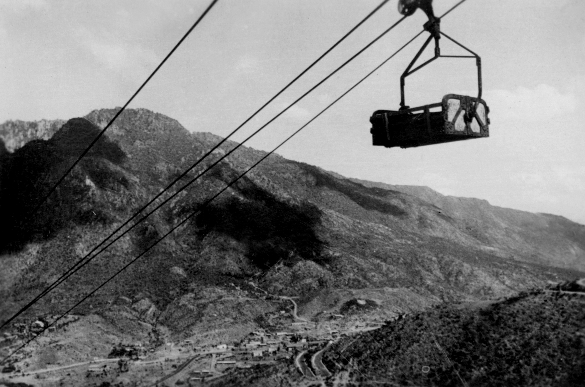 B+W photographs, Asmara Eritrea, while posted to Kagnew Station, late-1940s